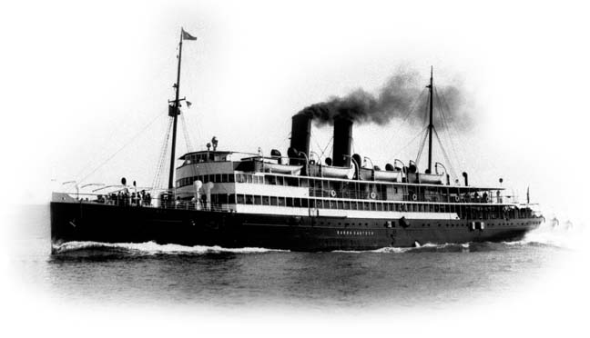 Technical data: Steamer, Owner Österreichischer Lloyd; Length 83 m Width 12 m Depth 6,7 m BRT 2100 NRT 860 iPS 4000 Built at Trieste Launching 1913 Propulsion 2 propellers